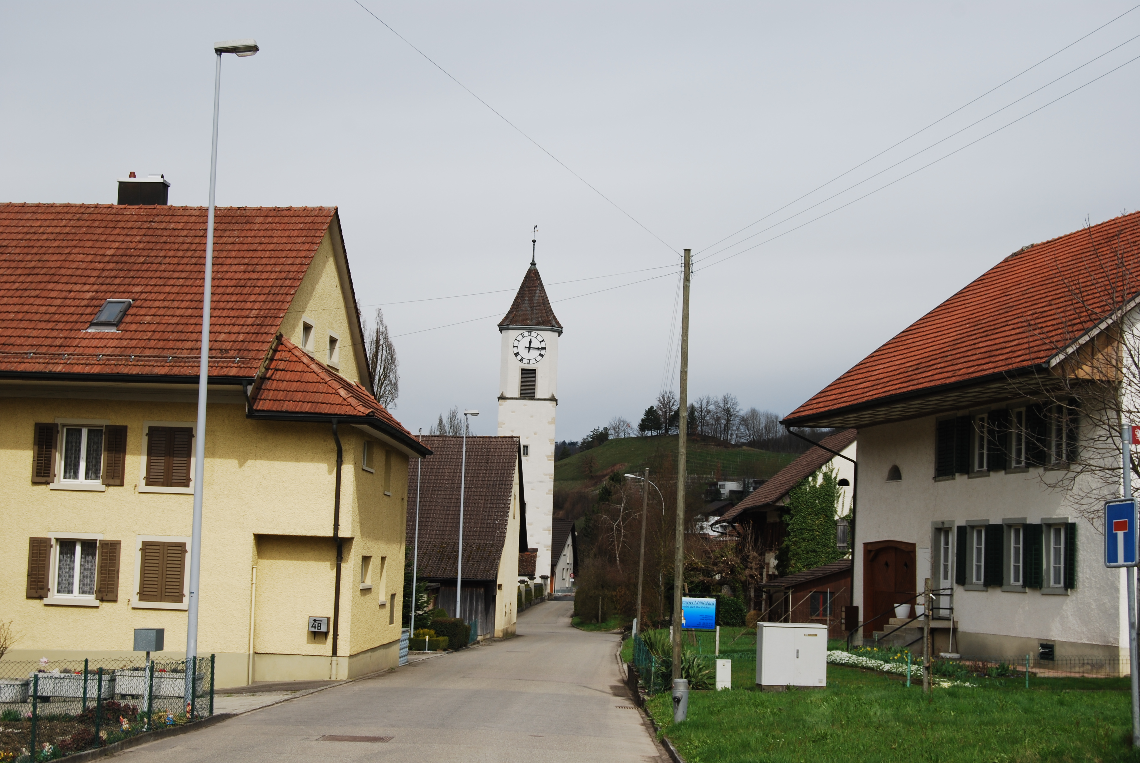 Church of Tegerfelden, canton of Aargau, SwitzerlandEsperanto: Preĝejo de Tegerfelden, Kantono Argovio, Svislando